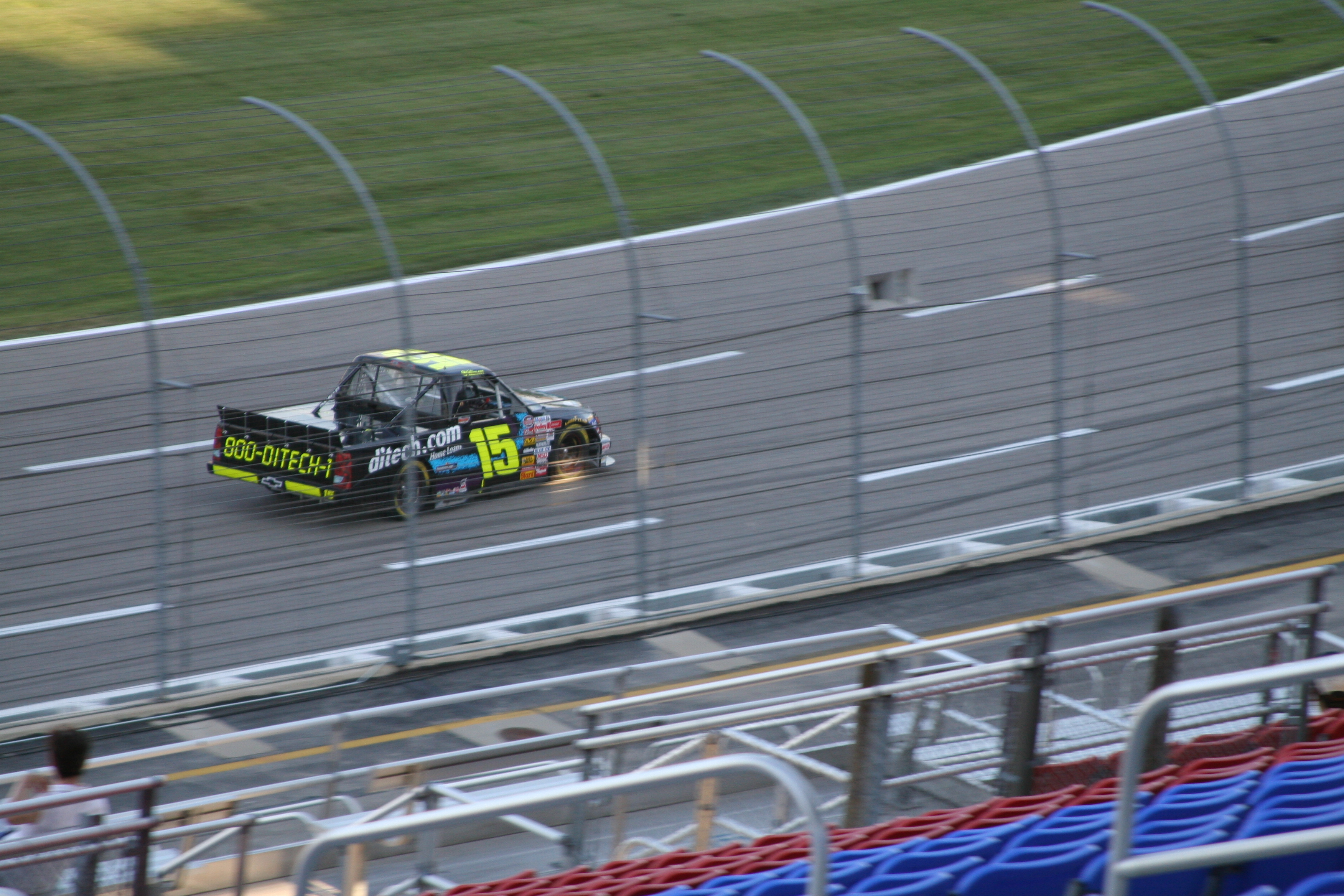 Kyle Krisiloff at Texas Motor Speedway qualifying on June 8, 2006. Image was tagged Attribution-ShareAlike 2.0 by flickr contributor sidehike. The original image can be found here